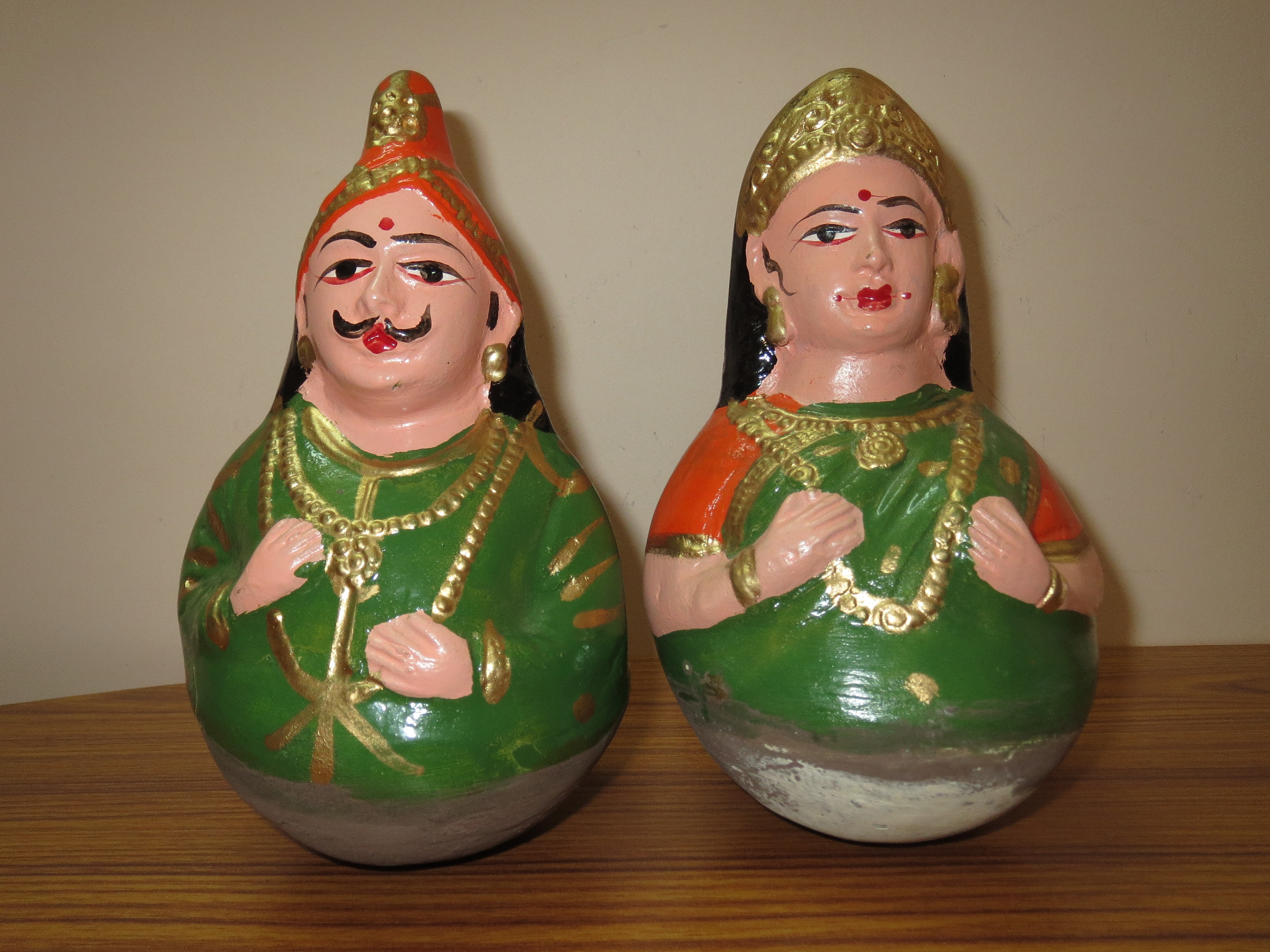 Tanjore dolls